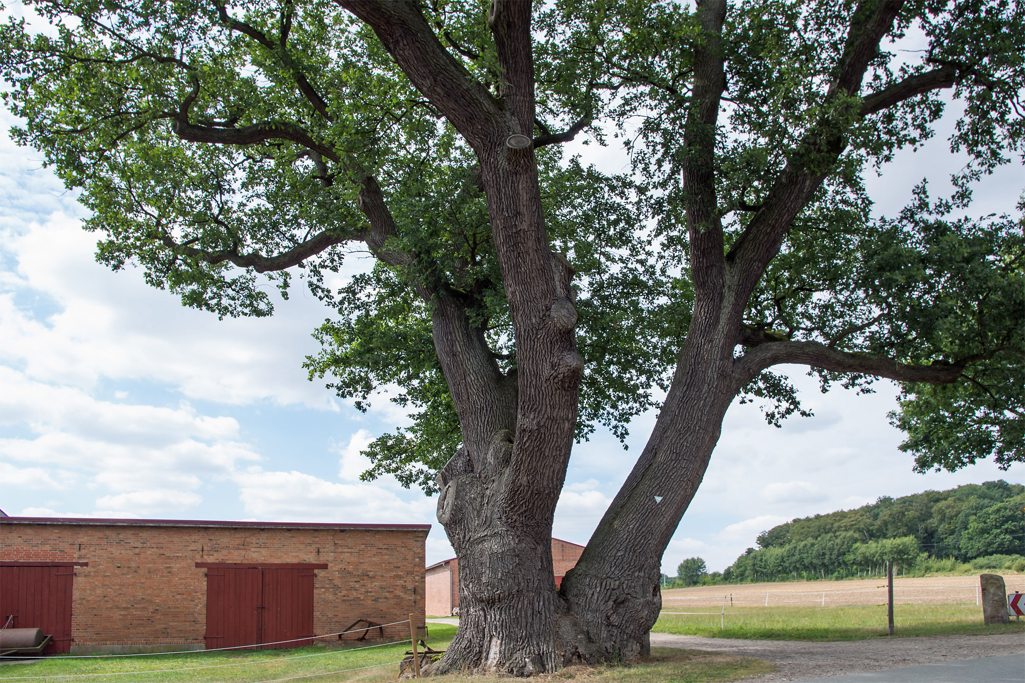 Natural monument "Oak" in the village Thune (district Lüchow-Dannenberg, north-eastern Lower Saxony, Germany).